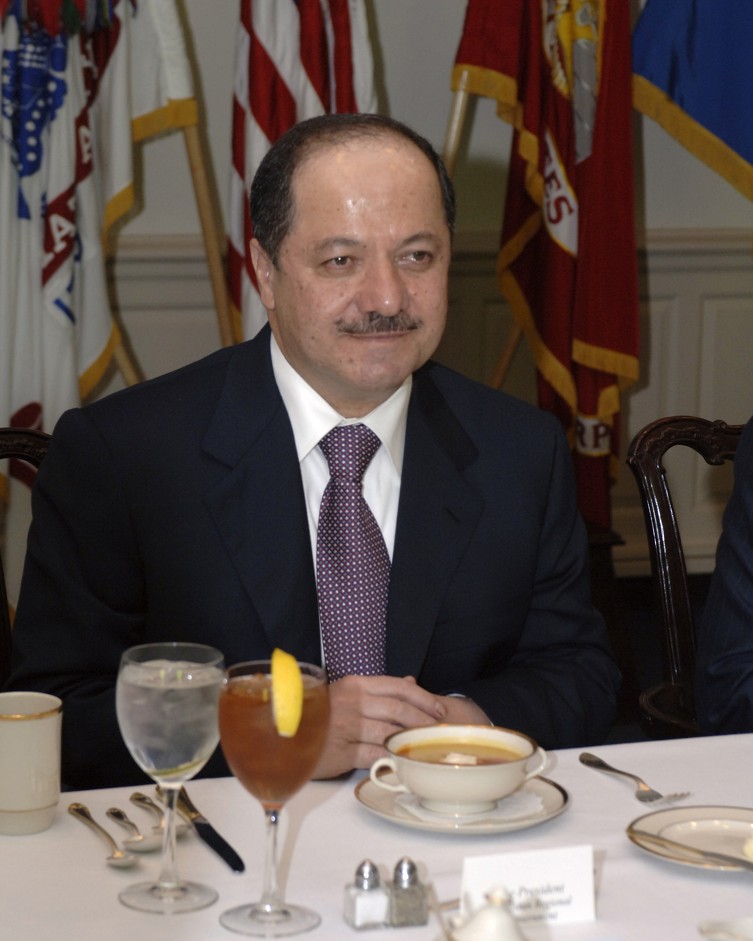 President of the Iraqi Kurdistan Regional Government Masoud Barzani meets with Secretary of Defense Donald H. Rumsfeld in the Pentagon on Oct. 27, 2005. Barzani and Rumsfeld are meeting to discuss defense issues of mutual interest.